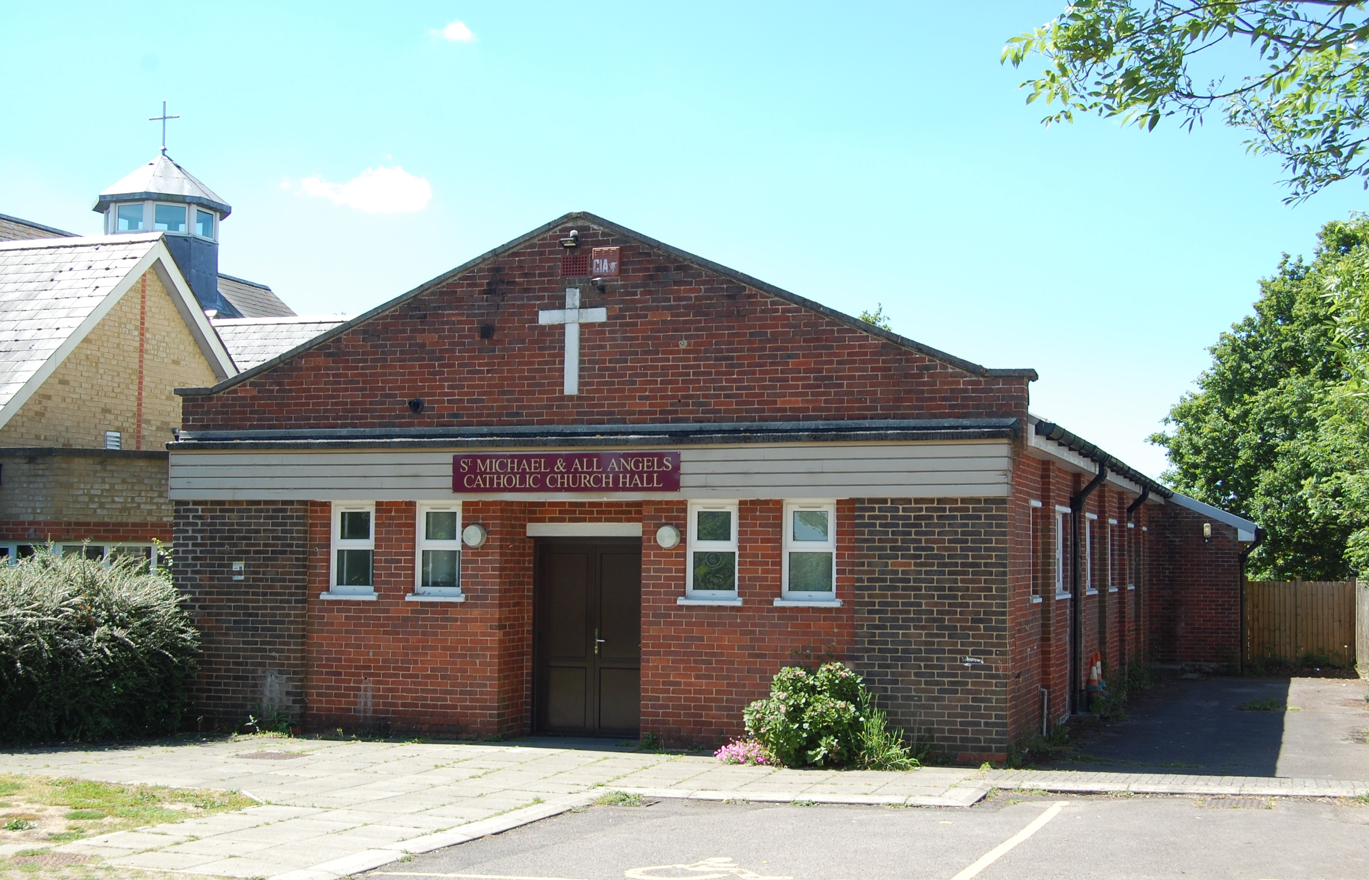 Church hall (and original church) next to St Michael and All Angels Church, Dunsbury Way, Leigh Park, Hampshire, England. St Michael and All Angels is one of seven churches on the large postwar Leigh Park estate in Havant (three Anglican, one Roman Catholic, one formerly Methodist but now non-denominational, one Baptist and one Evangelical). The first church, pictured here, opened in 1955 (dedicated to Blessed Margaret Pole) and is now the parish hall. It was replaced by a new church with the present dedication in 1970. After this was destroyed by lightning, the present church was built on the site. A History of the Catholic Church in Havant (1975) notes that a site on Petersfield Road was bought with the intention of building a second Roman Catholic church in Leigh Park, to serve the West Leigh area and Rowlands Castle village, but nothing came of this.